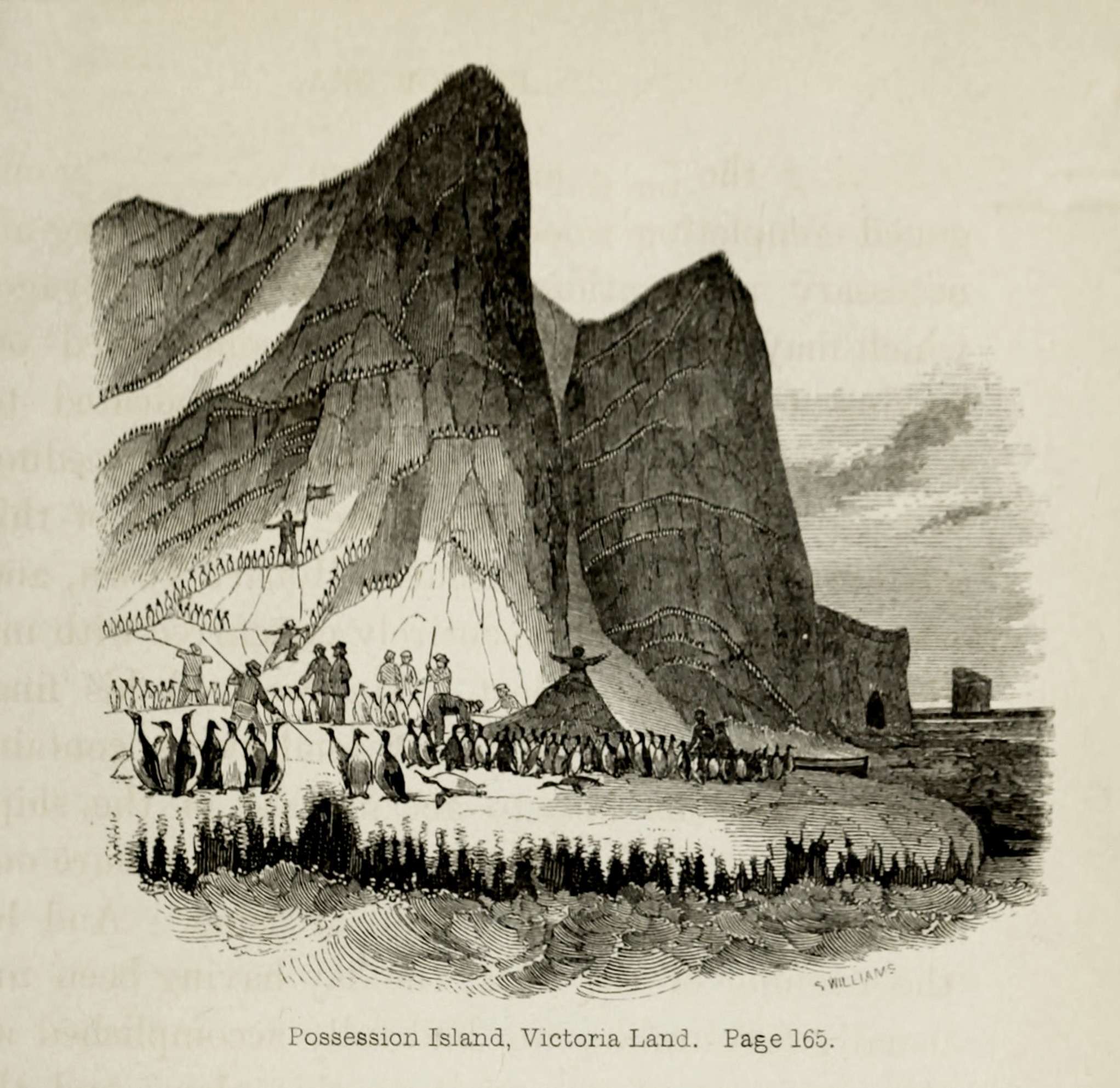 image on page 8 of File:A Voyage of Discovery and Research in the Southern and Antarctic Regions Vol 1.djvu